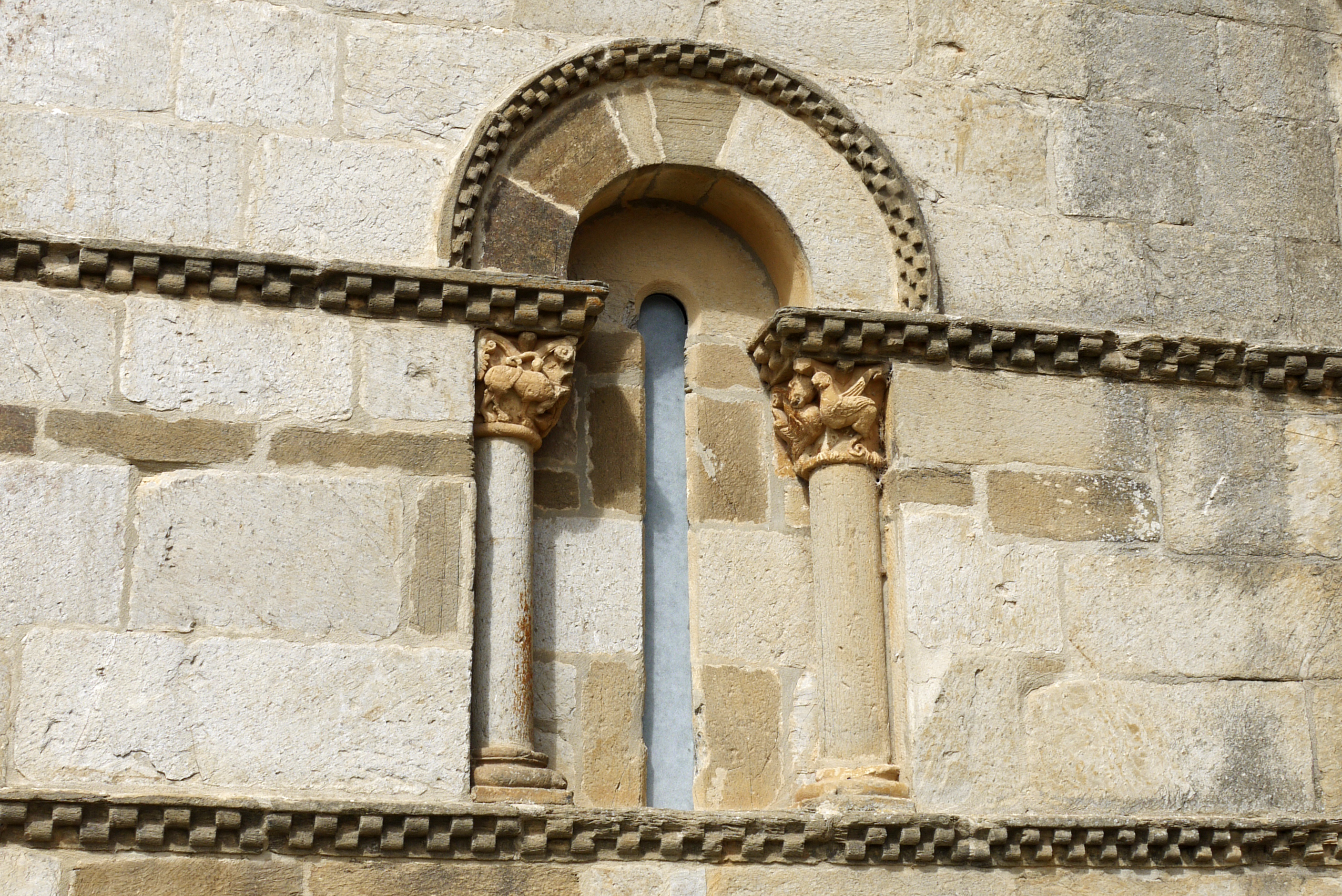 Light inlet, in the church Santa Marta de Tera, Benavente, Zamora, Spain.